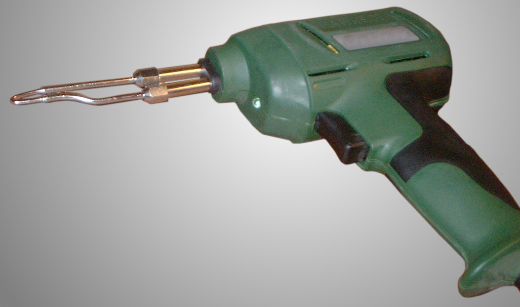 Photograph of an electrical soldering gun